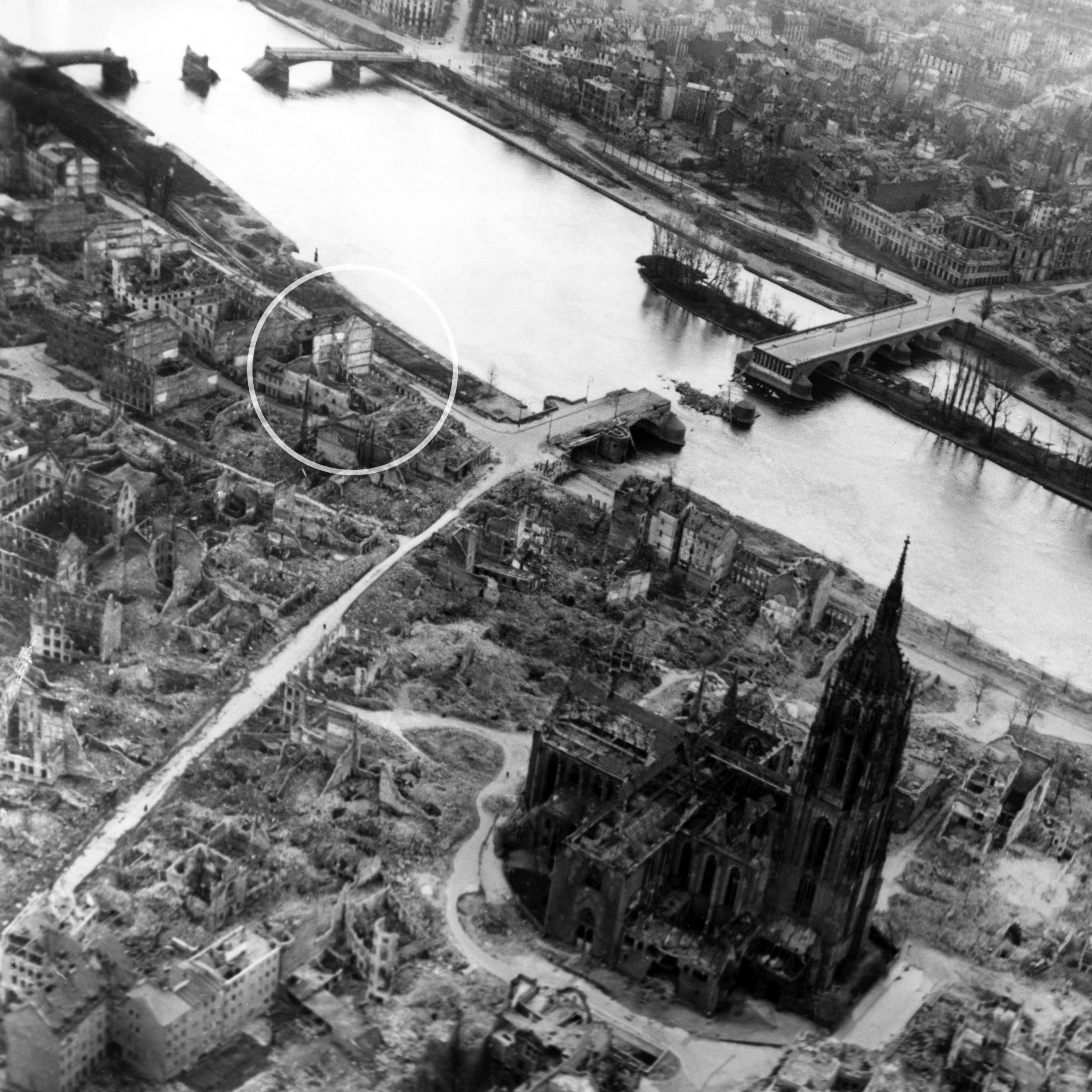 Frankfurt on the Main: Center of the Altstadt (Old Town) with the Cathedral, western part of the Fischerfeldviertel (Fisher Field Quarter) and the major part of Sachsenhausen with heavy damage and devastations of the allied bombings of World War II as seen from the air from about the Braubachstrasse (Braubach Street) to the south; the remains of the Schopenhauerhaus (Schopenhauer House) are encircled